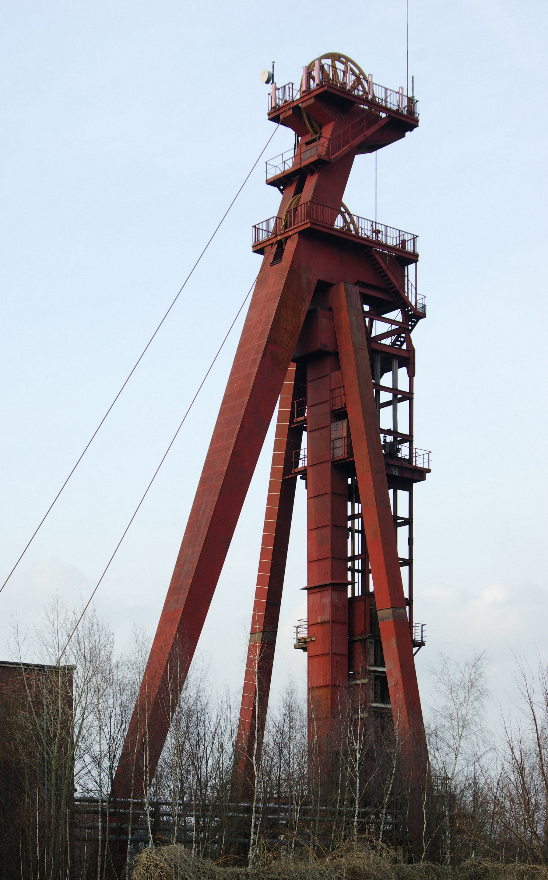 "Monopol", closed coal mine in Kamen, Germany near Dortmund. There were two shafts named "Grillo 1" and "Grillo 2". Only one has been kept for museal purposes.